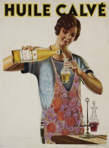 old calve